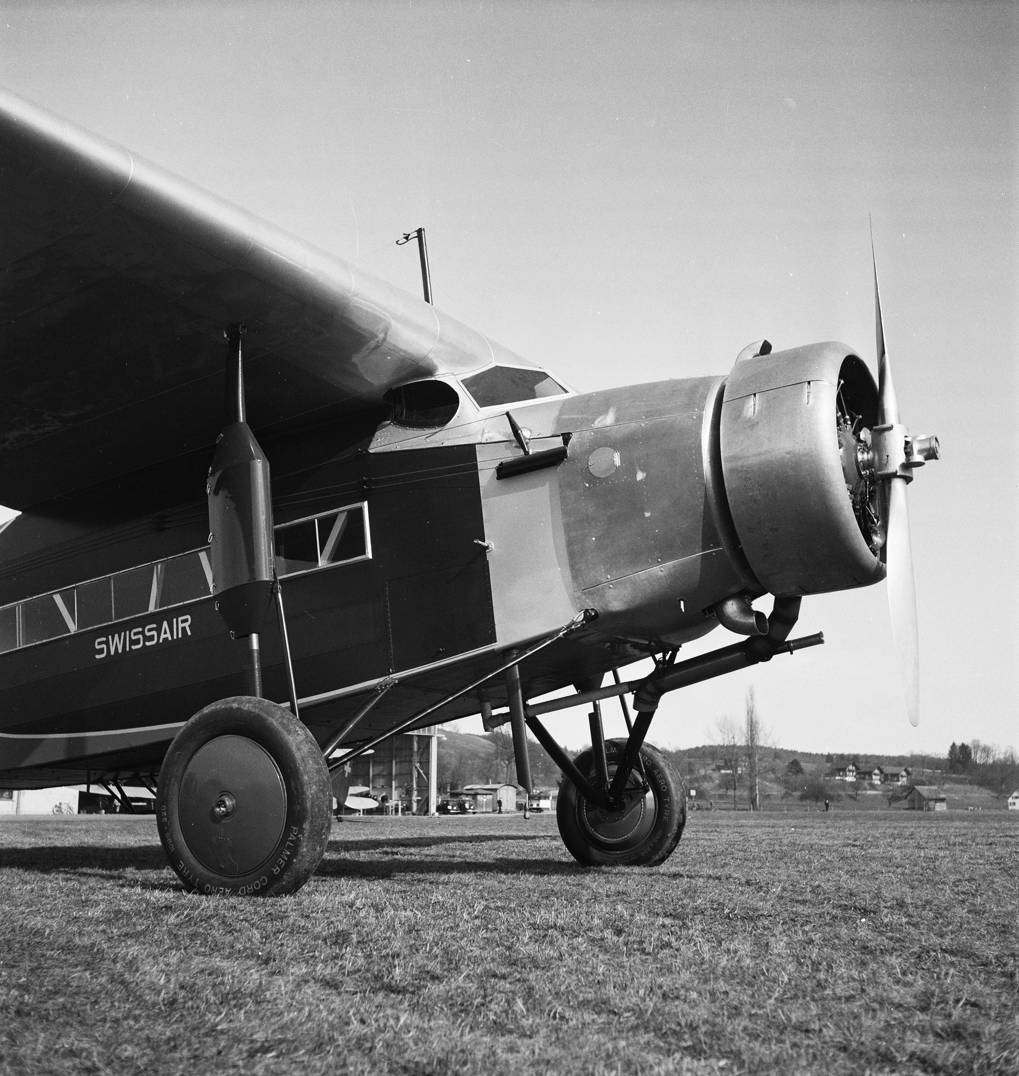 Die Maschine war zwischen 1931-1950 im Europa-Einsatz. Anfängliche Immatrikulation CH-157. Die Fokker F VIIa kam 1927 als CH-157 zur Balair, 1931 zur Swissair. Sie wurde anfänglich hauptsächlich auf der Poststrecke Dübendorf - Le Havre - Cherbourg eingesetzt. 1933 Austausch des 420 PS Jupiter Motors gegen 500 PS Wright Cyclone. 1934 neue Immatrikukation HB-LBO. Im Winter 1938/39 wurde der 720 PS Cyclone Reserve Motor der 1936 am Rigi verunglückten Clark HB-ITU montiert, der Hecksporn durch das Heckrad der Clark ersetzt und die Haupträder mit Palmer Bremsen ausgerüstet, die 8 Passagiere Korbsessel mit 10 neuen Sitzen ausgetauscht. 1939-1948 Schul-, Rund- und Keuchhustenflüge. 1948 zu Farnerwerke Grenchen. 1950 ausser Betrieb genommen und im Bider Hangar Bern-Belp eingelagert. 1966 durch das Fokker Team restauriert. Seit 1972 im Verkehrshaus Luzern ausgestellt